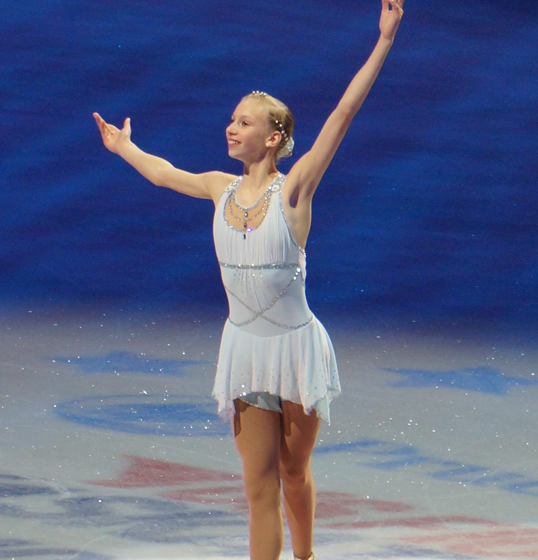 Polina Edmunds performs at the 2014 U.S. Figure Skating Championships at the TD Garden, Boston.